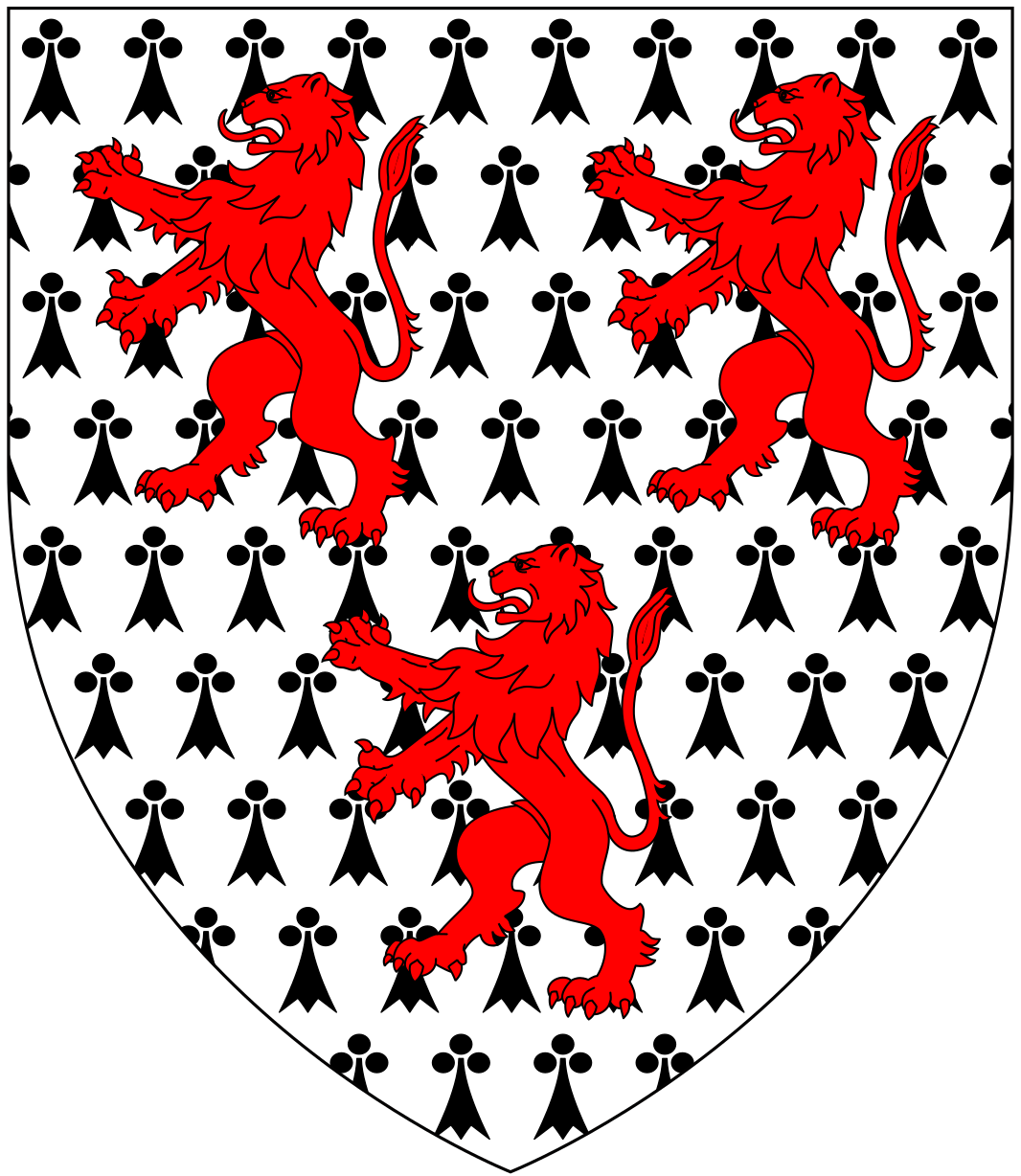 Arms of Chudleigh family (Chudleigh Baronets) of Ashton, Devon: Ermine, three lions rampant gules (Pole, Sir William (d.1635), Collections Towards a Description of the County of Devon, Sir John-William de la Pole (ed.), London, 1791, p.478)